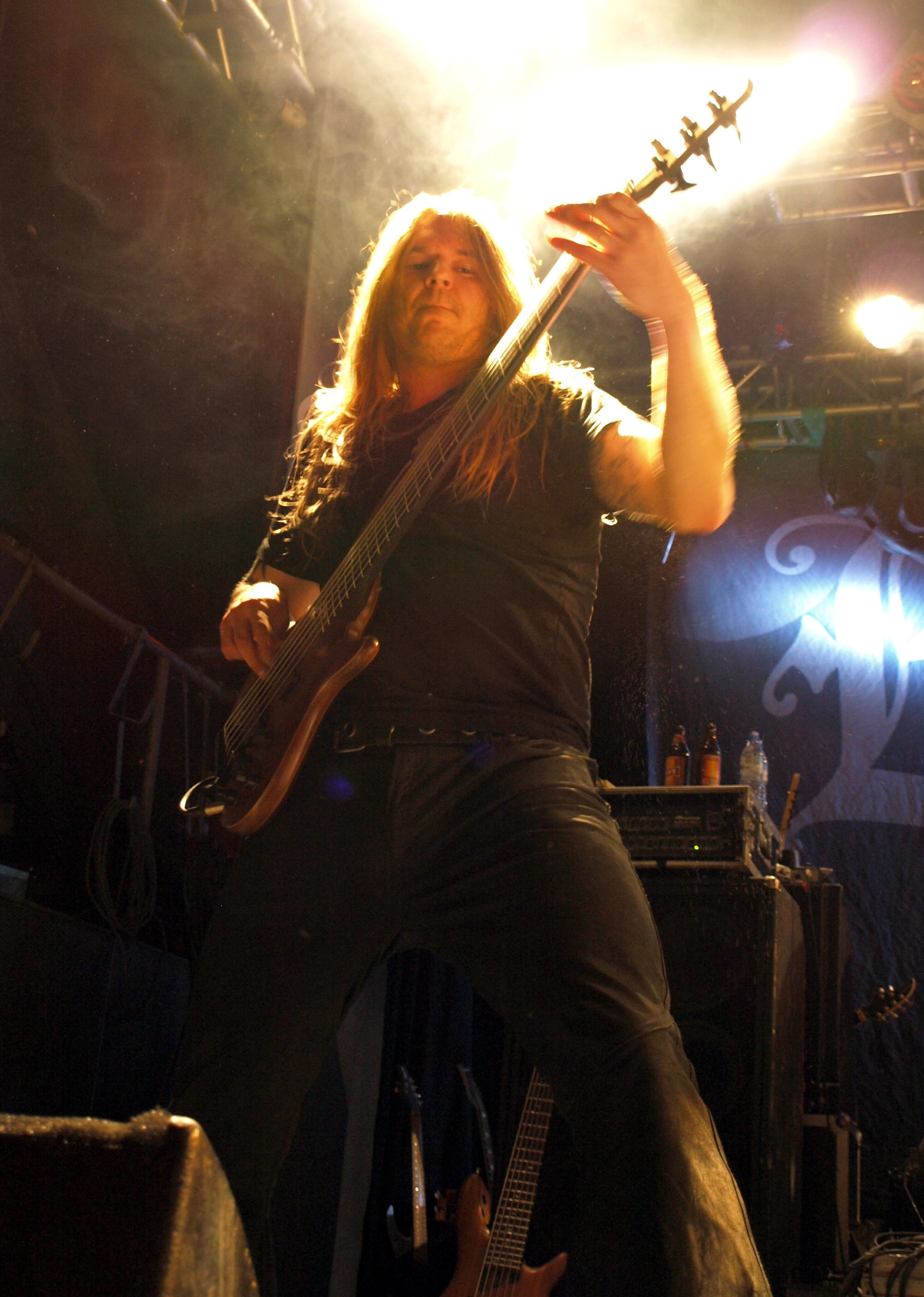 Swedish progressive metal band Evergrey live at Nosturi, Helsinki